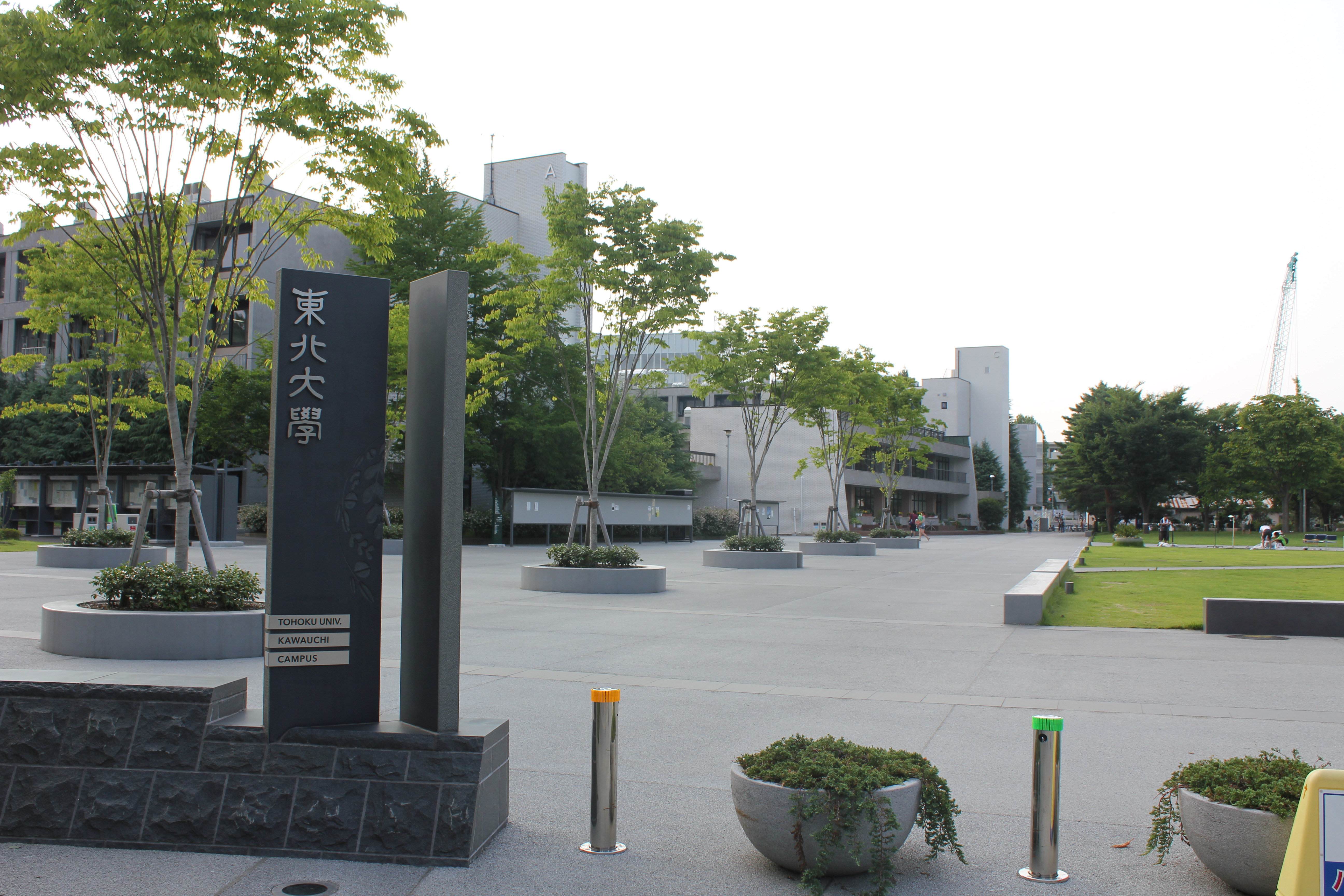 Entrance of the Kawanai campu of Tohoku university, Sendai, Japan